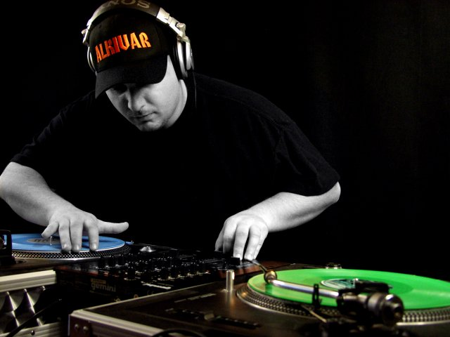 According to english wikipedia this is in public domain: Original Photo taken by Nathaniel Meo (Utopium Photography) of me (User:Alkivar) as copyright owner to photo I hereby release it into public domain